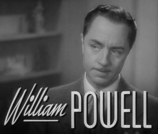 Cropped screenshot of William Powell from the trailer for Another Thin Man